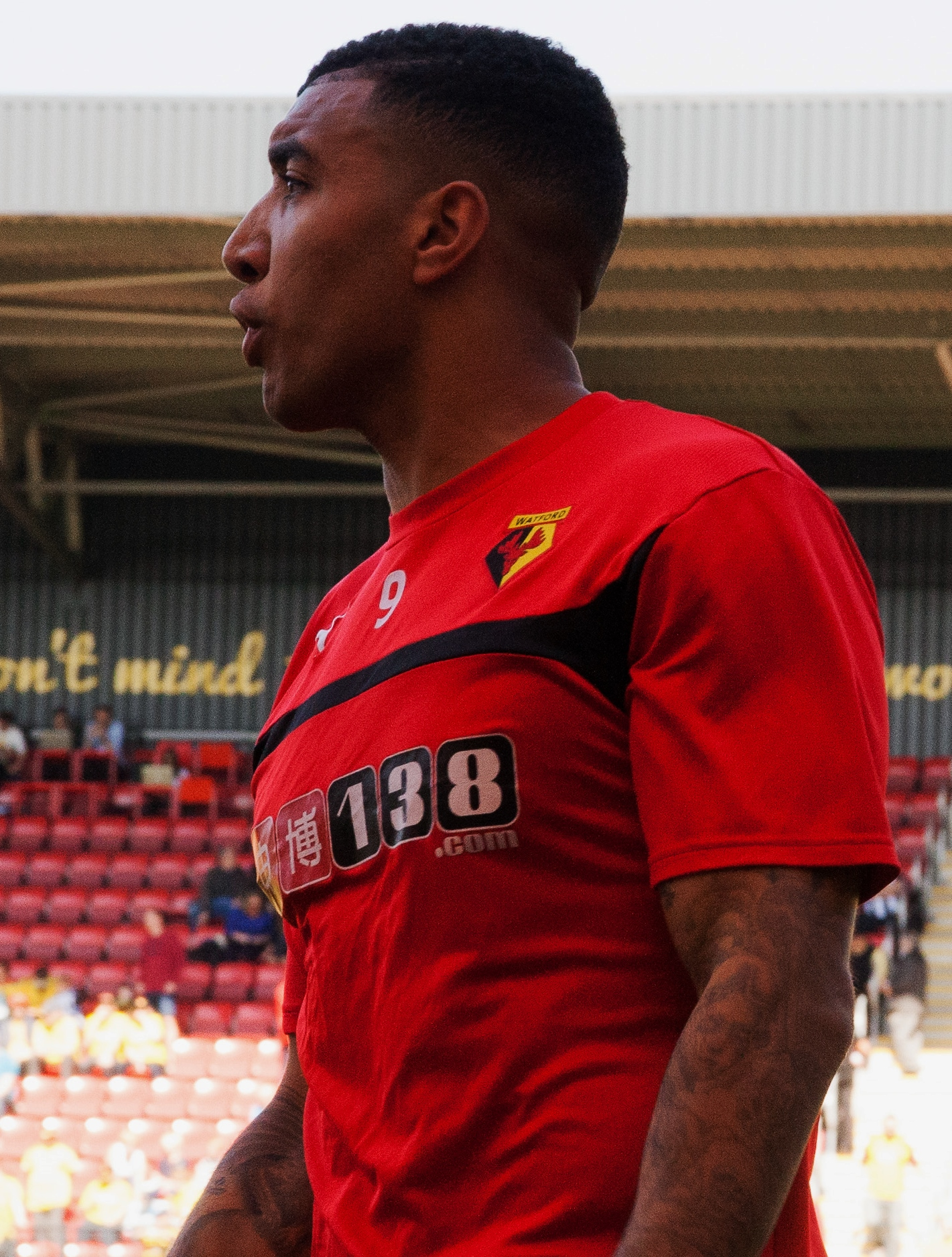 Troy Deeney